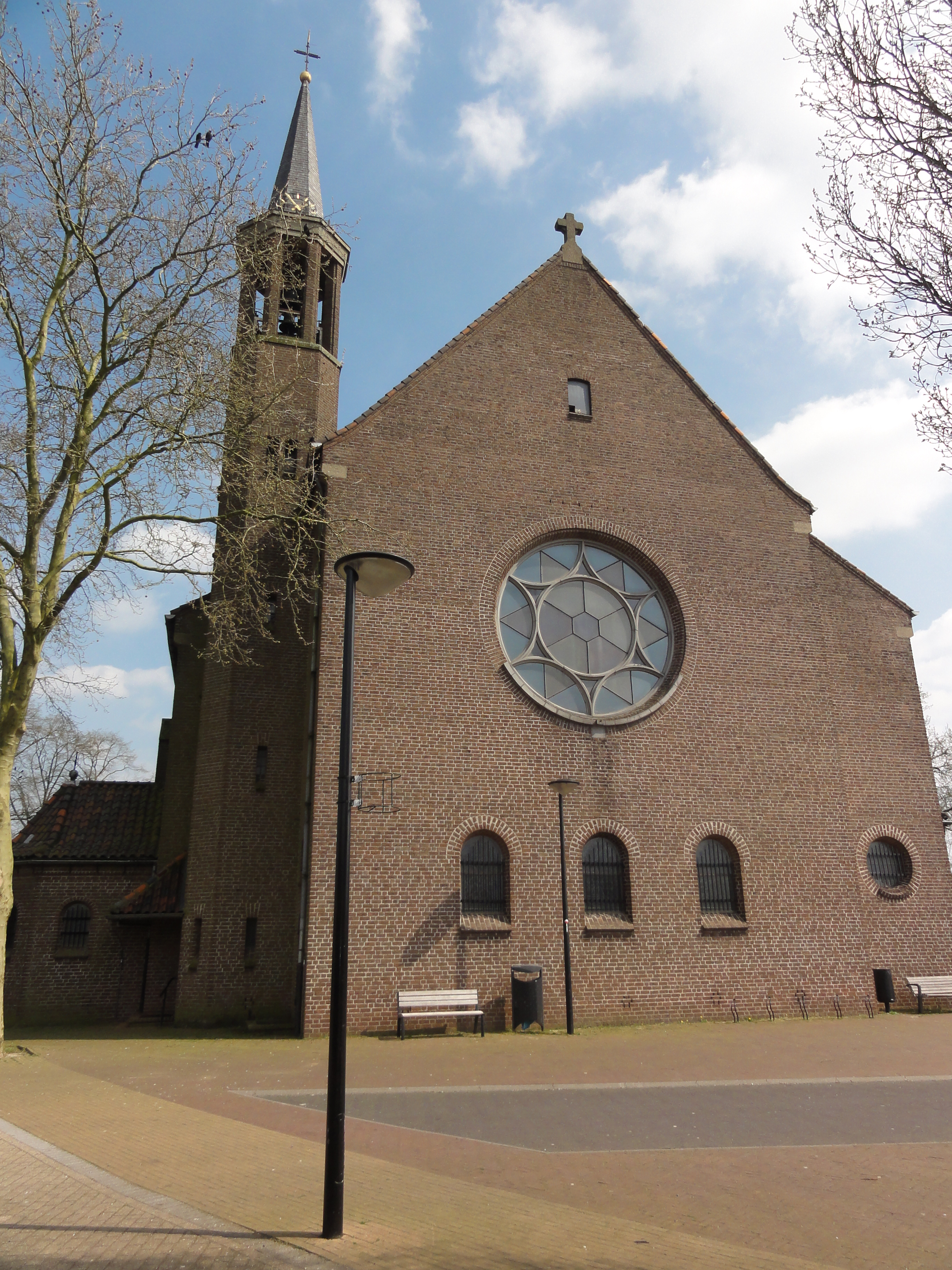 Venray Wanssum, RK Sint Michaëlskerk torenzijde.